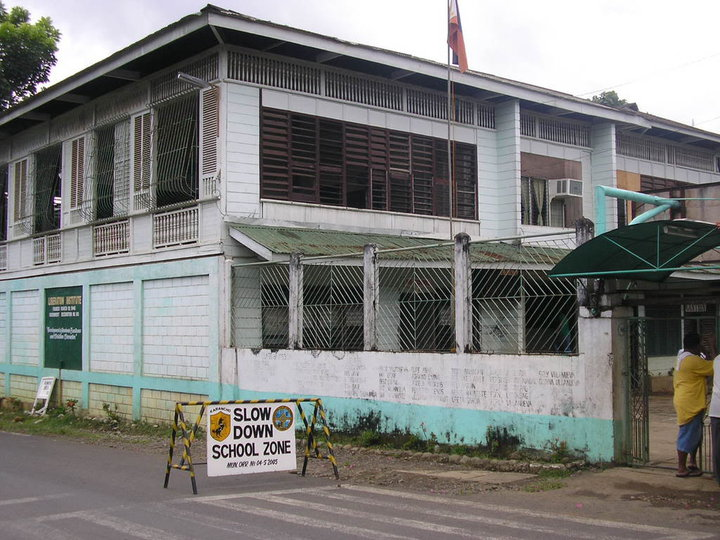 Front view of the Libertarian Institute